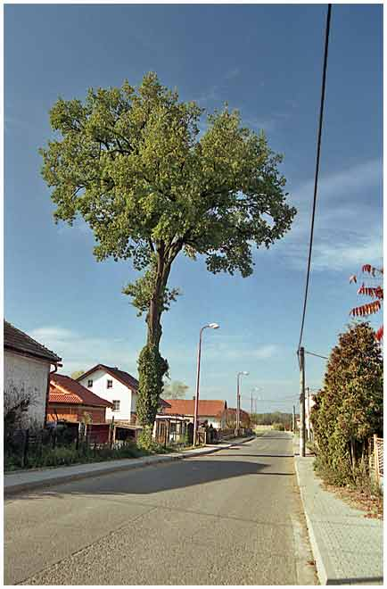 Protected oak (Quercus robur) in Třesovice, Hradec Králové District, Czech Republic